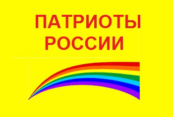 Flag The Party Of Patriots Of Russia. The ideology of Democratic socialism, Collectivism